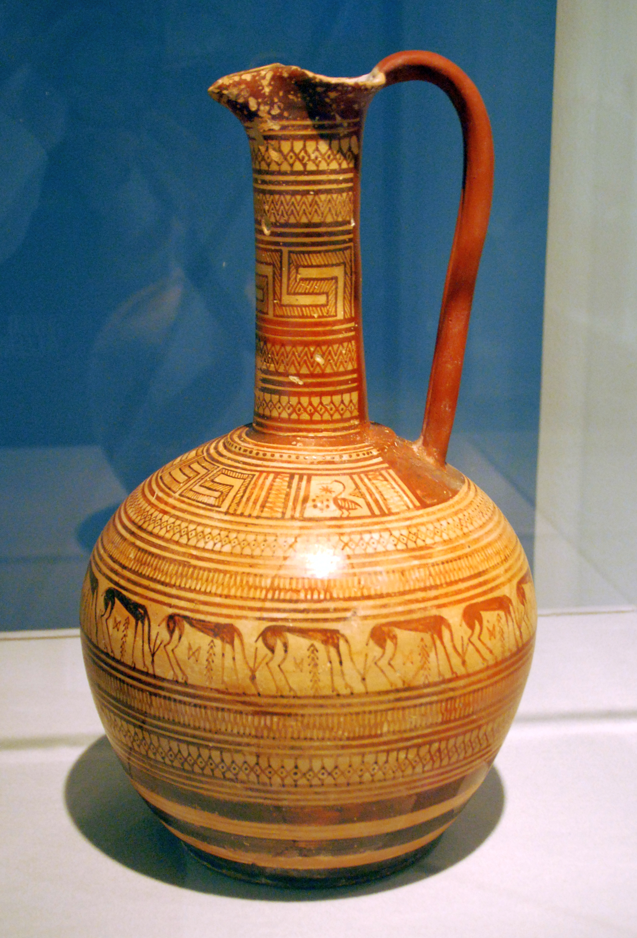 Late geometric attic Oinochoe attributed to the Dipylon Group, about 750 BC; Museum August Kestner Hanover; Inventary number 1958.60